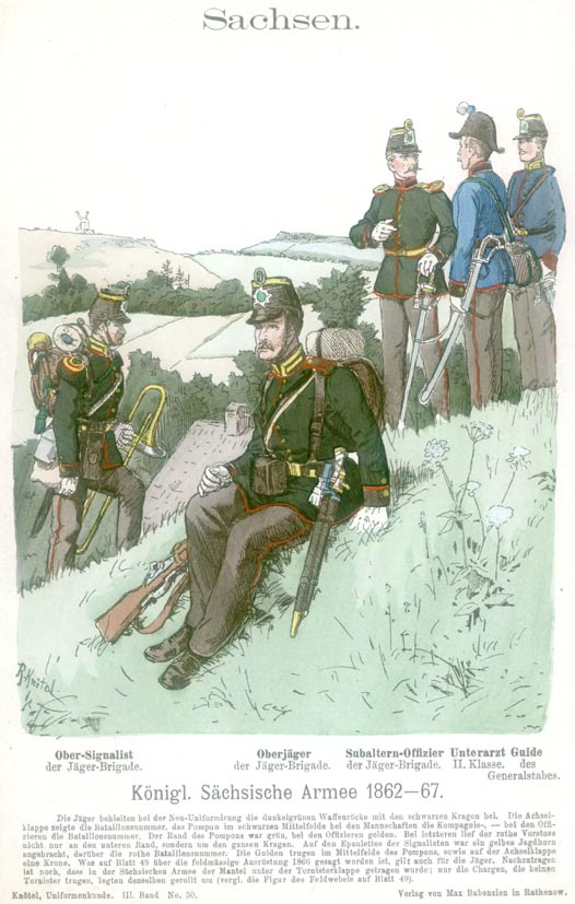 Sachsen. Königlich Sächsische Armee. Infanterie. 1862-1867